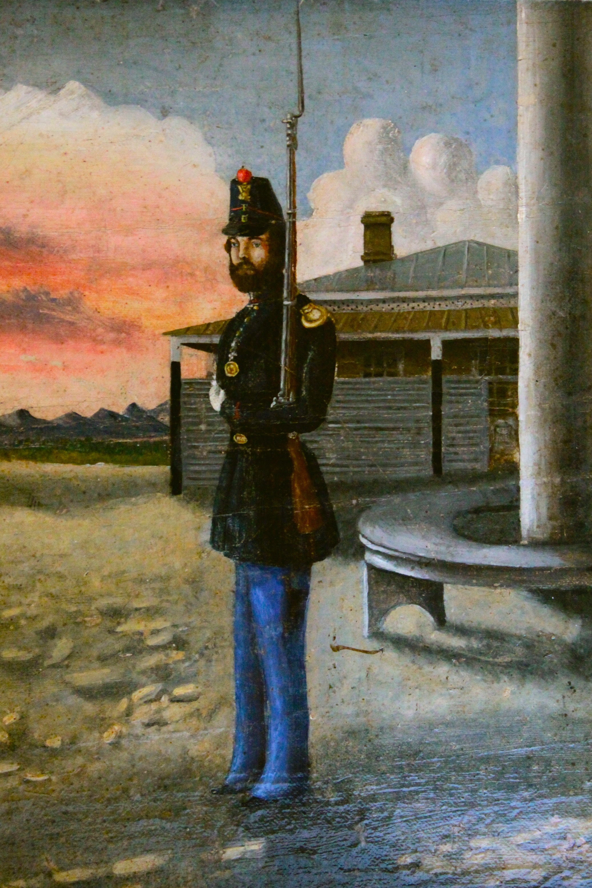 Fort Yuma, CA 1858. Capt. Joseph Stewart. Artist unknown.